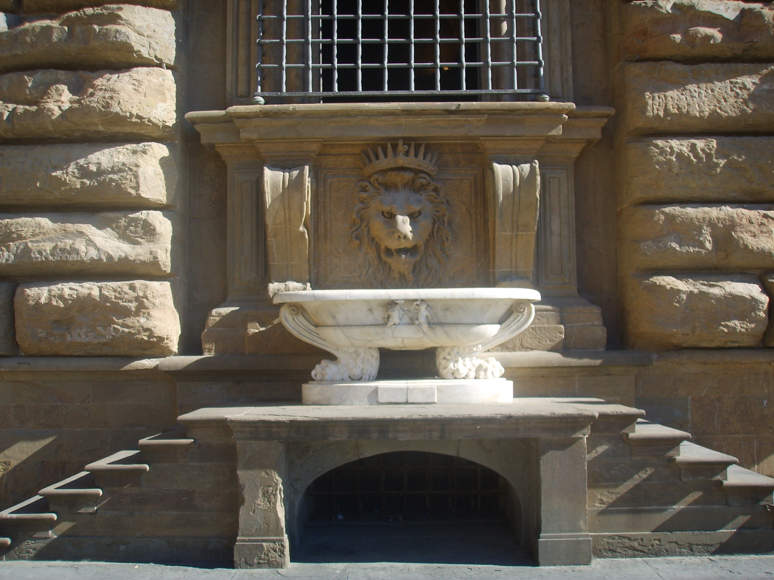 Palazzo_Pitti fountain on the façade in Florence, italy